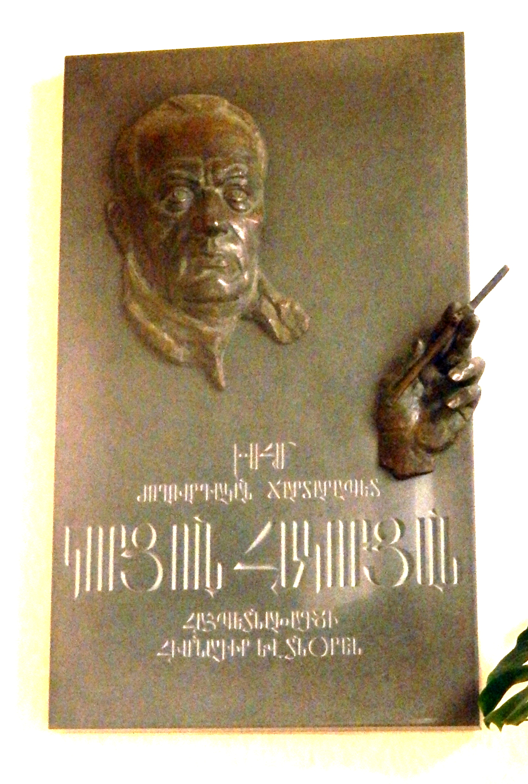 Architect Koryun Hakobyan